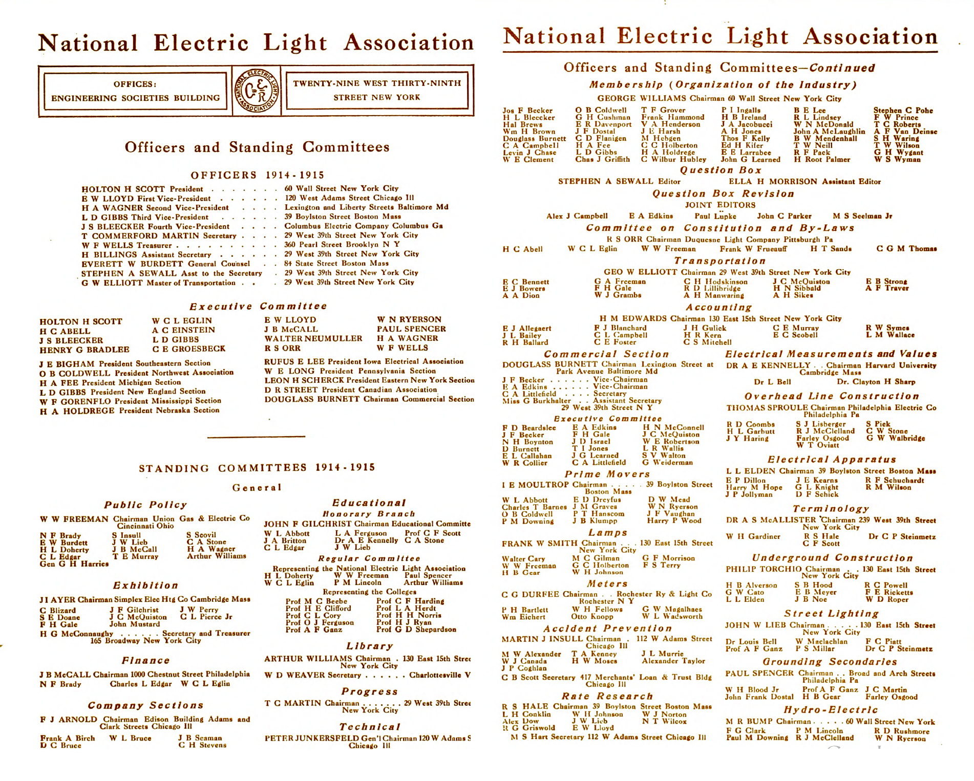 The NELA's structure and organization that includes it officers and committees